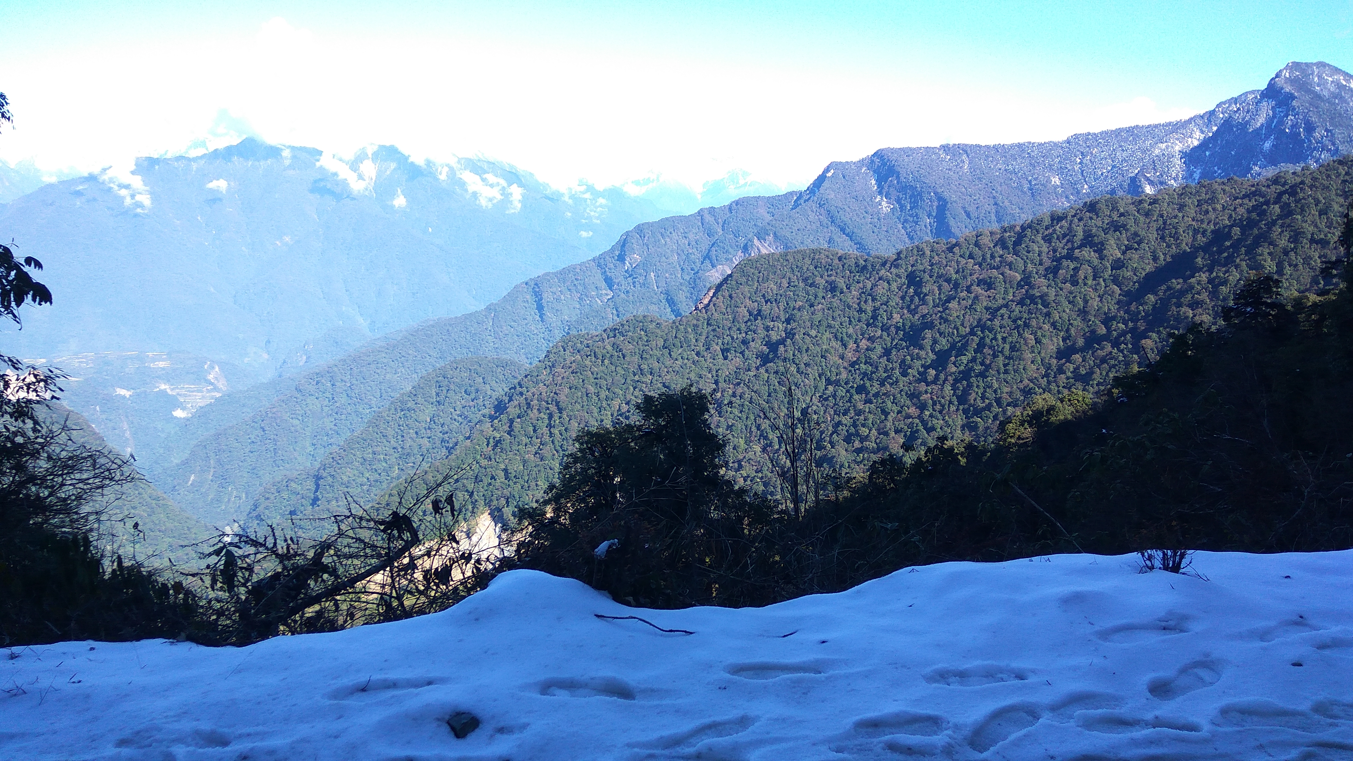 Mayodia Pass_1